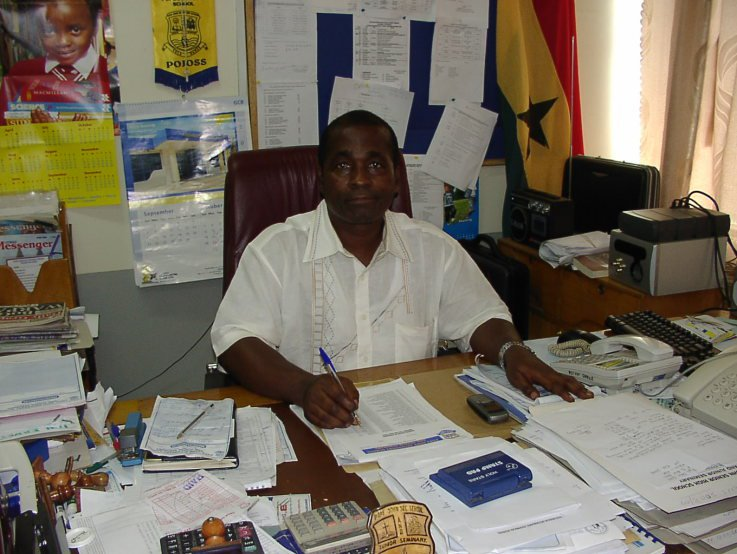 Abandze